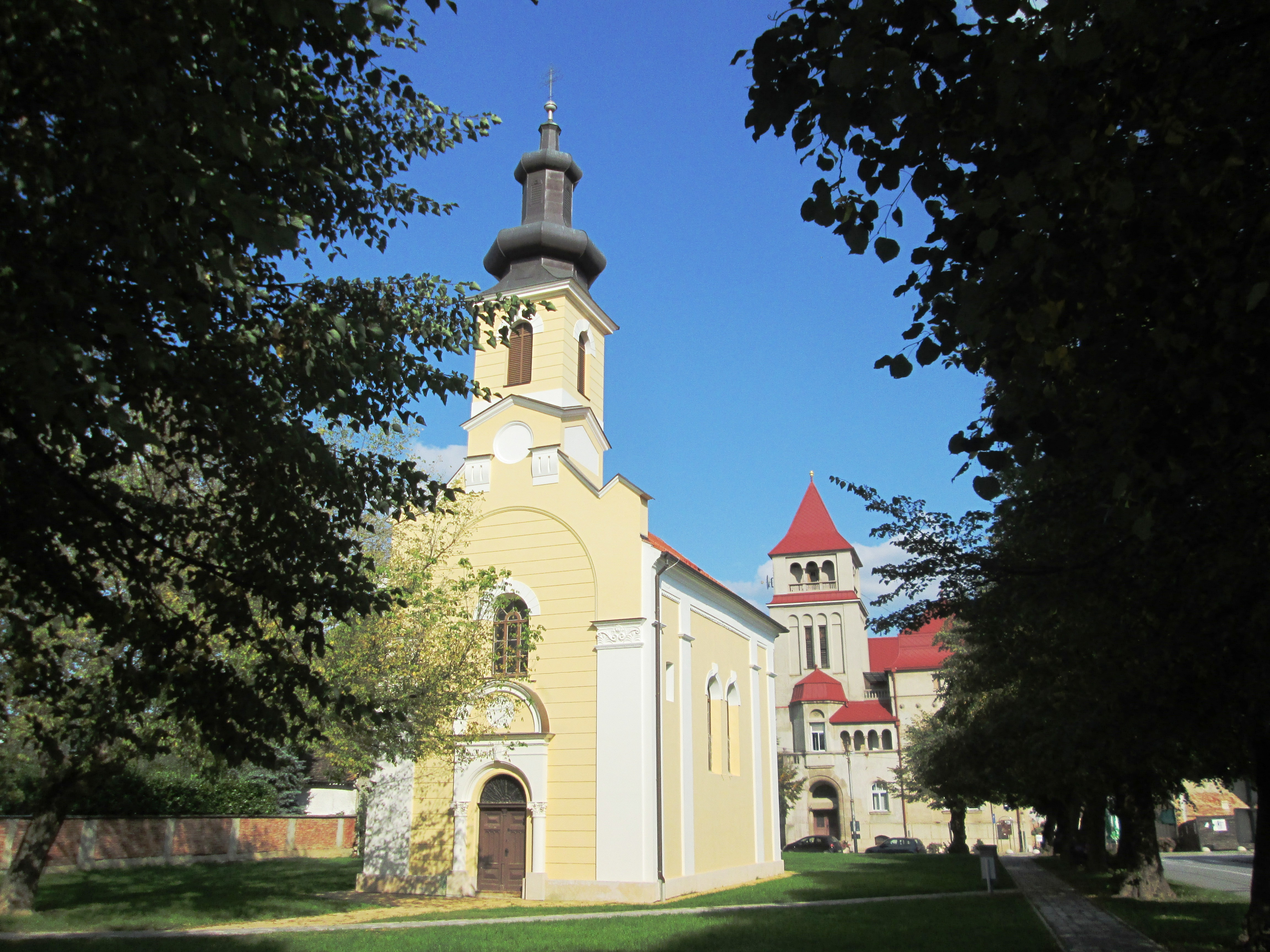 Serbian Ortodox Church of Saint Sava in Krizevci, Croatia.